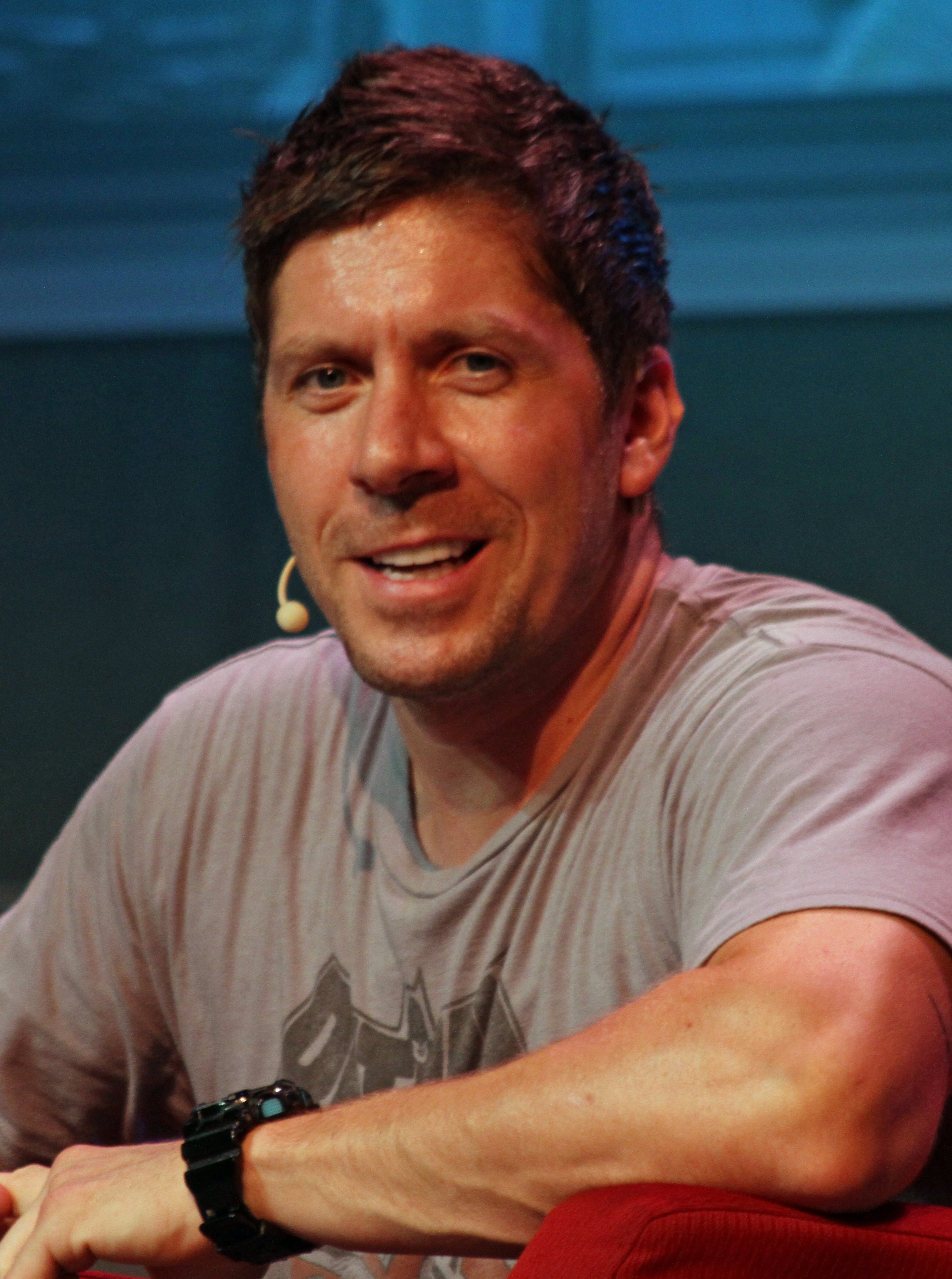 Ray Park speaking at Star Wars Weekends 2011 at Walt Disney World, Hollywood Studios, Orlando, Florida.